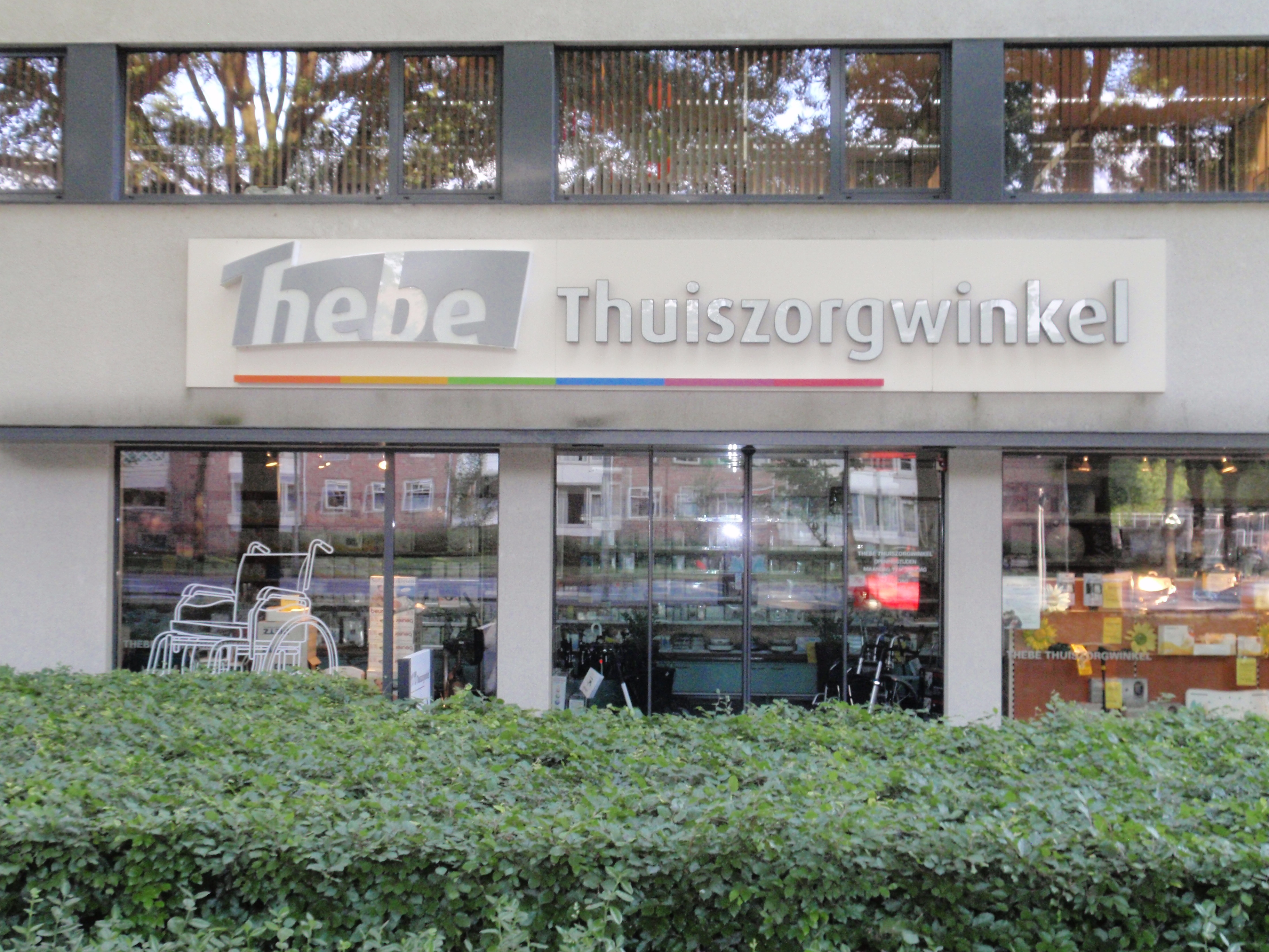 Thebe home care